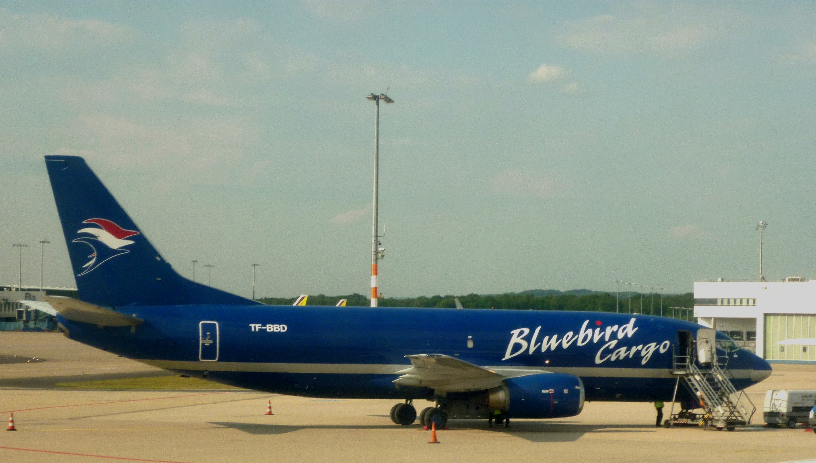 An BlueBird Boeing 737-300F with registration TF-BBD at Cologne/Bonn Airport (CGN), Germany.